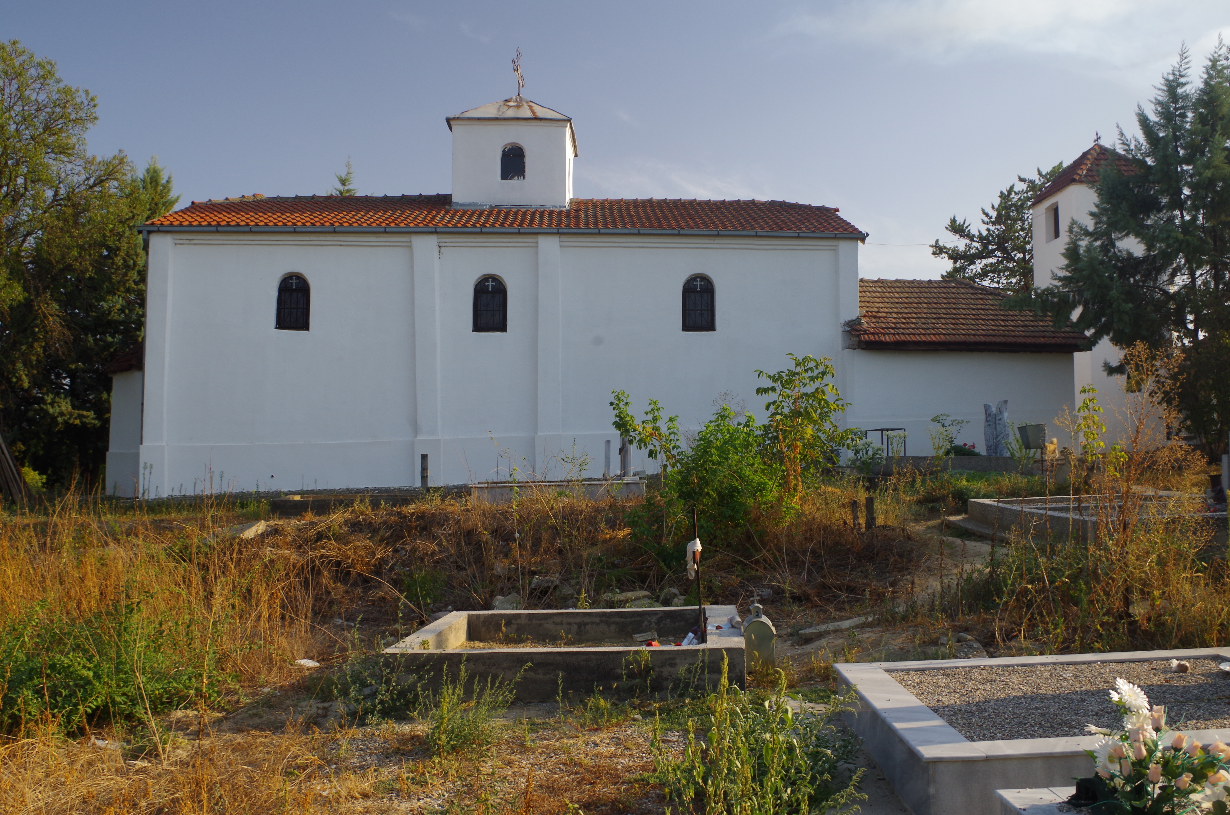 St. Athanasius Church in the village of Sopot